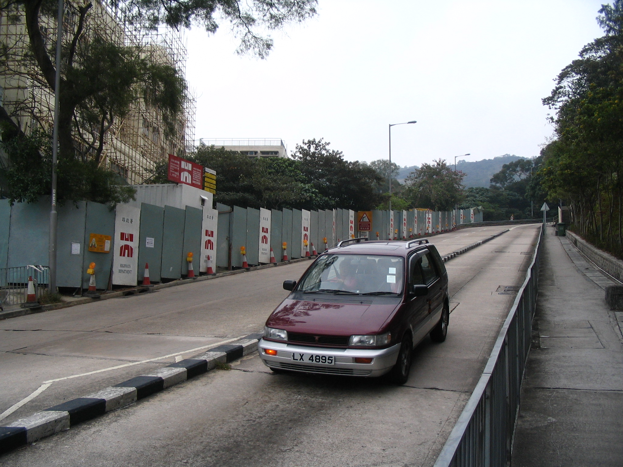 Photo of South Lantau Road